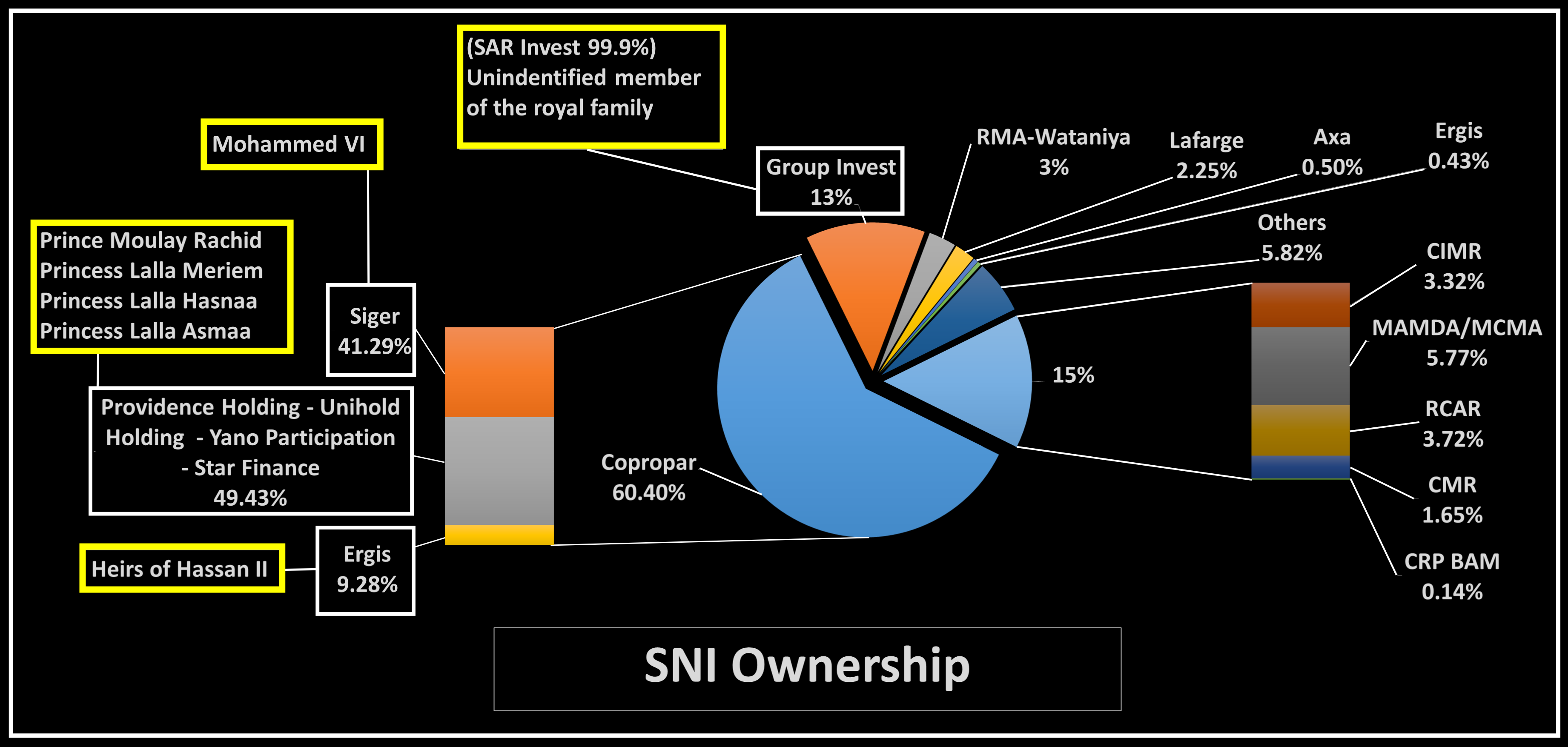 Details of the ownership of "Société Nationale d'Investissement" (SNI) as of June 2013, using information from Telquel and CDVM (note: CDVM page has not been updated since 2010)